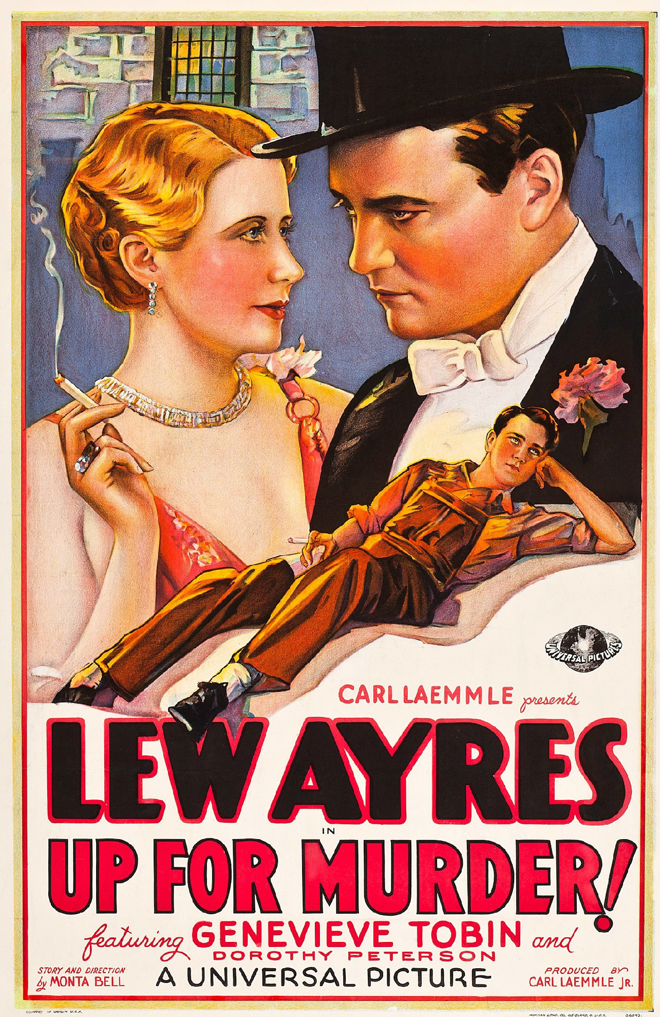 Poster for the 1931 film Up for Murder. There are no copyright marks. At bottom left is Country of origin USA. At bottom right is Morgan Litho Co., Cleveland, O. USA 36549.